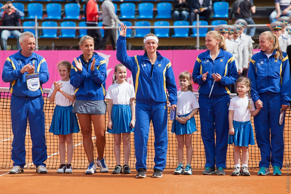 Ukraine Fed Cup Team 2012